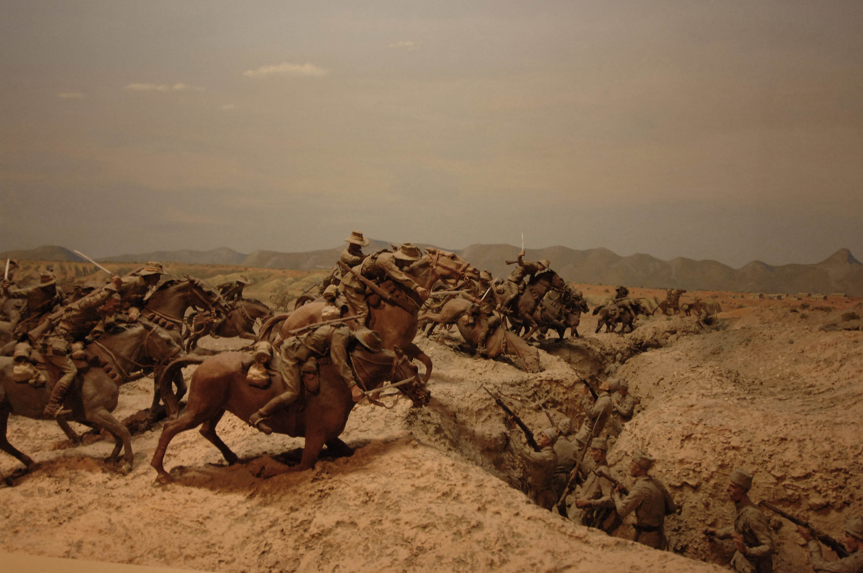 BATTLE OF MAGDHABA, 1916, PALESTINE CAMPAIGN. DIORAMA IS IN THE AUSTRALIAN WAR MEMORIAL IN CANBERRA, AUSTRALIA. IT SHOW AUSTRALIAN CAVALRY CHARGING THE TURKISH LINES.